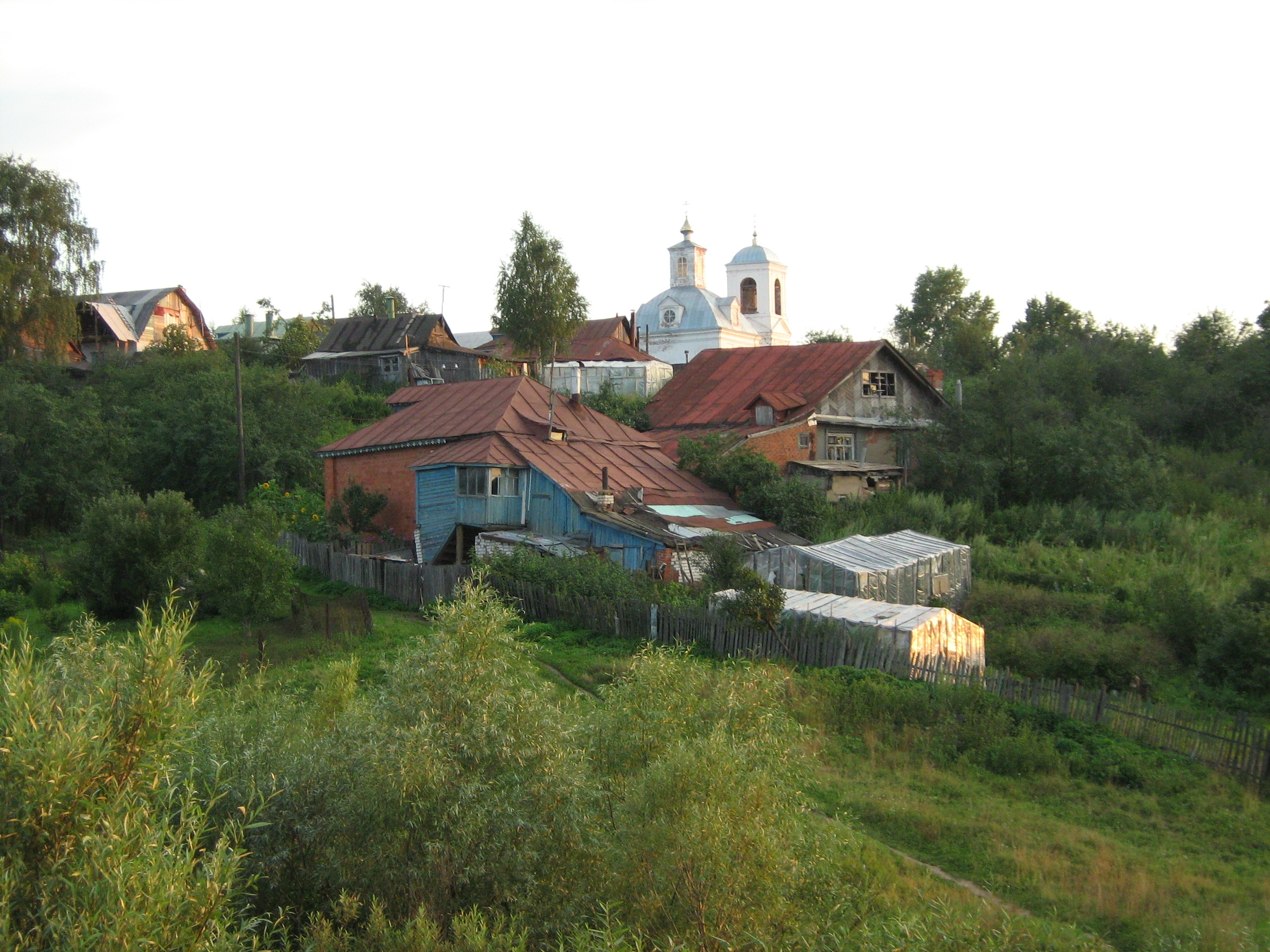 Village of Fedyakovo, Kstovsky District. The Church of Transfiguration is seen in the middle.